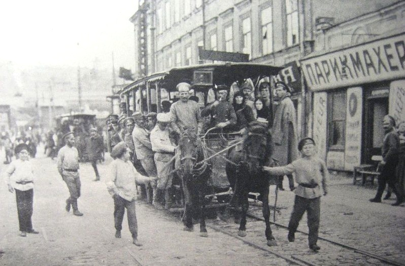 Street scene in Odessa of 1917.